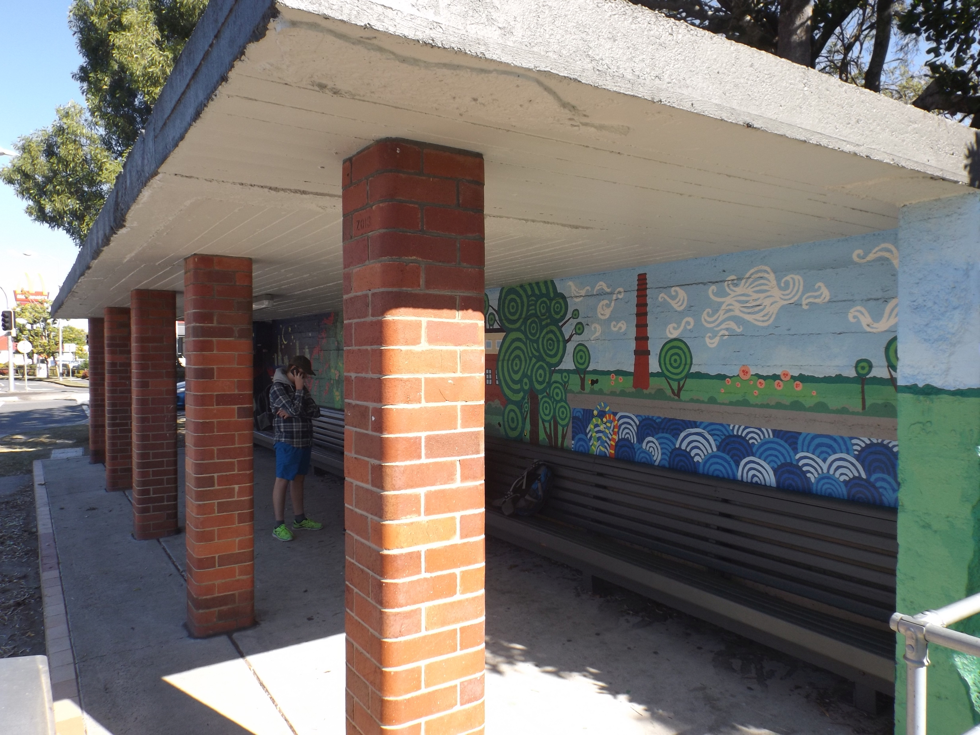 Photo of Newmarket Air Raid Shelter at Alderley, Brisbane, Queensland, Australia.